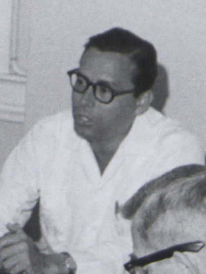 George Cadle Price at a press conference